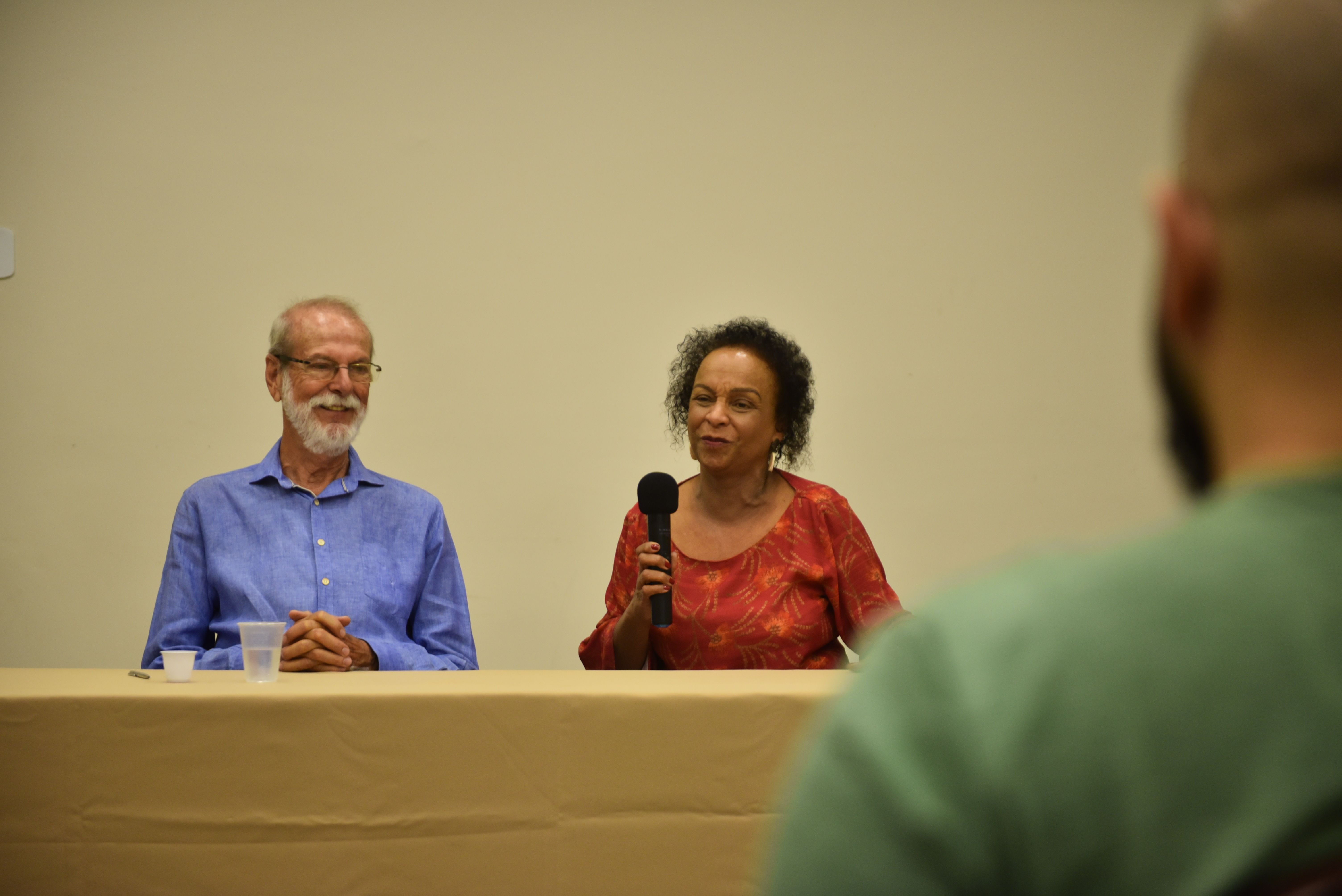 José Bonifácio e sua esposa, Ana Lucia Valladão, anunciam em coletiva de imprensa a sua cura do câncer, a confirmação da sua pré-candidatura a prefeitura de Cabo Frio. 2 de dezembro de 2019.